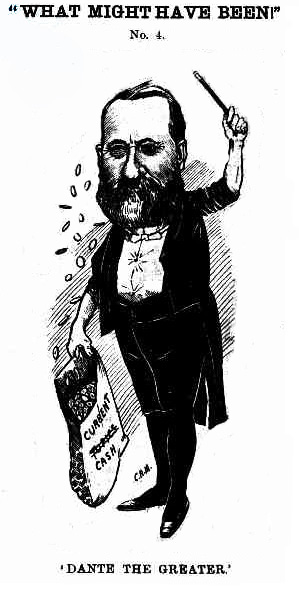 This drawing entitled 'Dante the Greater' under the heading 'What Might Have Been' was published in Australia soon after the accidental death in Australia of the young American magician, Oscar Eliason, who performed under the stage name, Dante the Great.